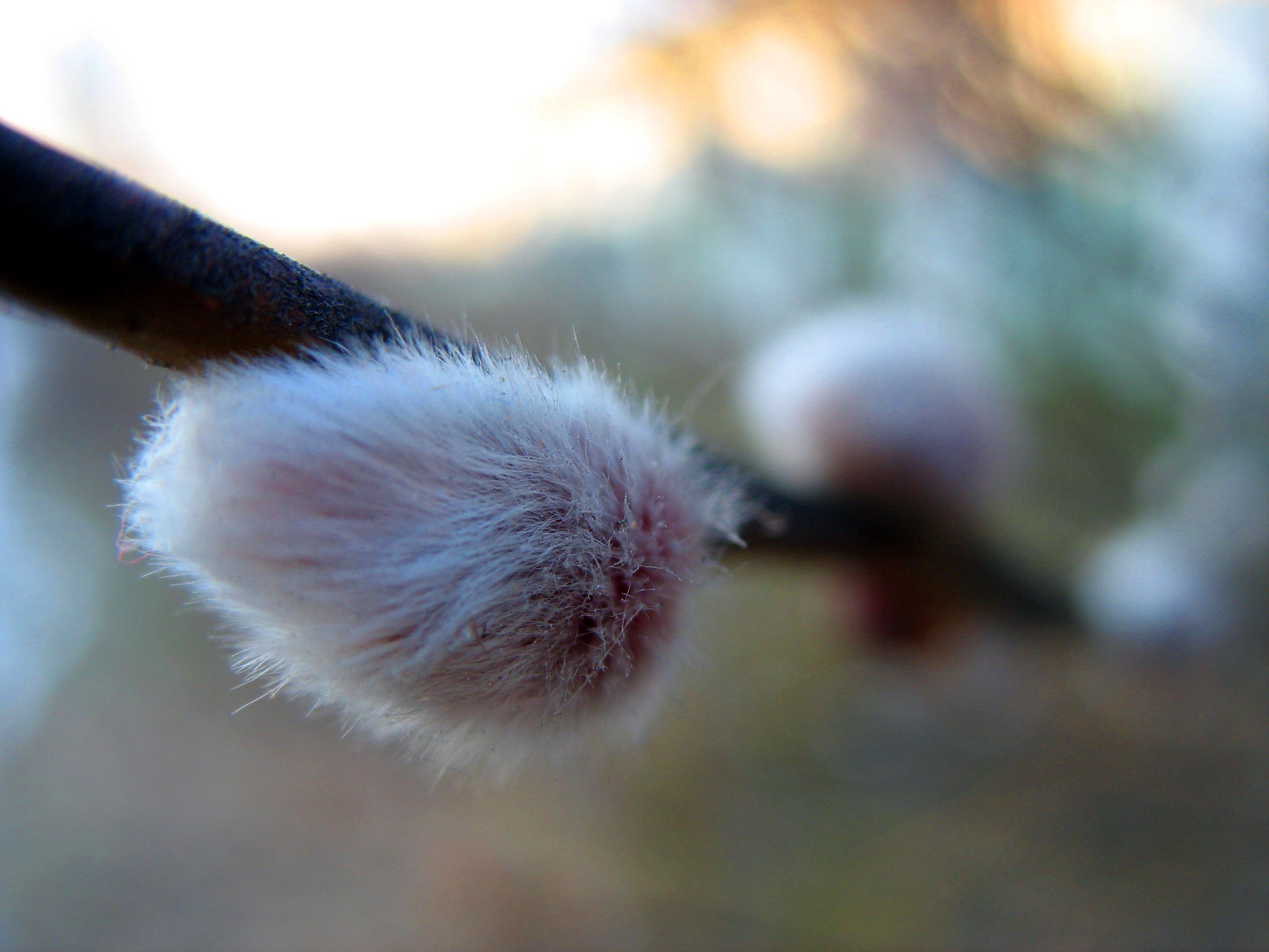 Macro shot of a Salix caprea (Goat Willow)